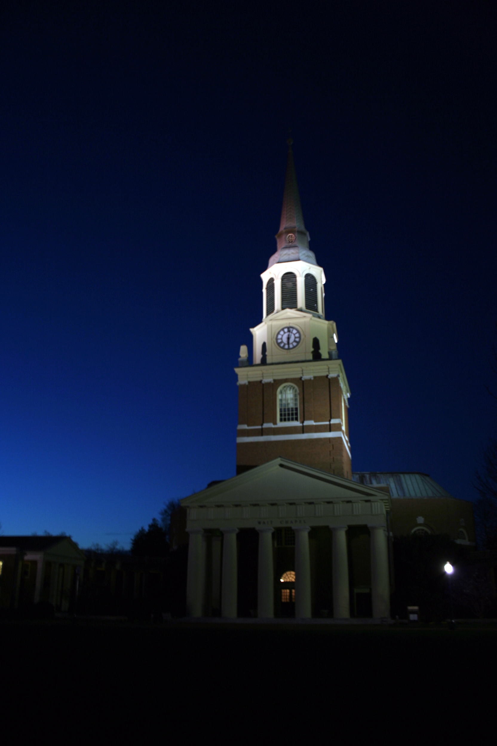 I took this picture in front of Wait Chapel on the campus of Wake Forest University on Wednesday, January 17, 2007. I release all rights to this image to the public. You can do with it what you please. JHMM13 (T